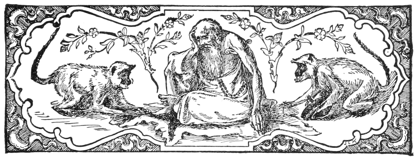 Title illustration of the chapter "The Miracle of Purun Bhagat"